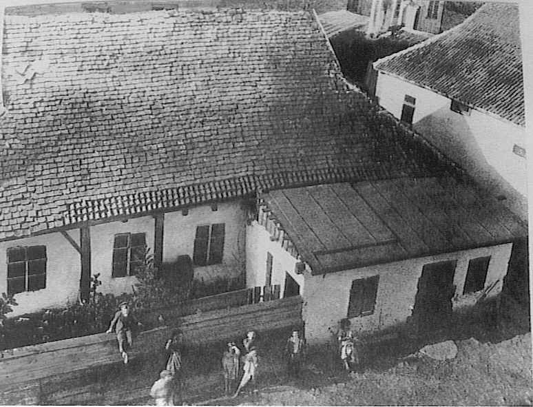 Key words: Medzhibozh, Medzhybizh, Synagogue, Baal Shem Tov This is a photo probably taken around 1915 by the Ansky Ethnographic Expeditions to Podolia. It shows the Baal Shem Tov's Synagogue (shul) photographed from an adjacent building. You can see people outside the shul.